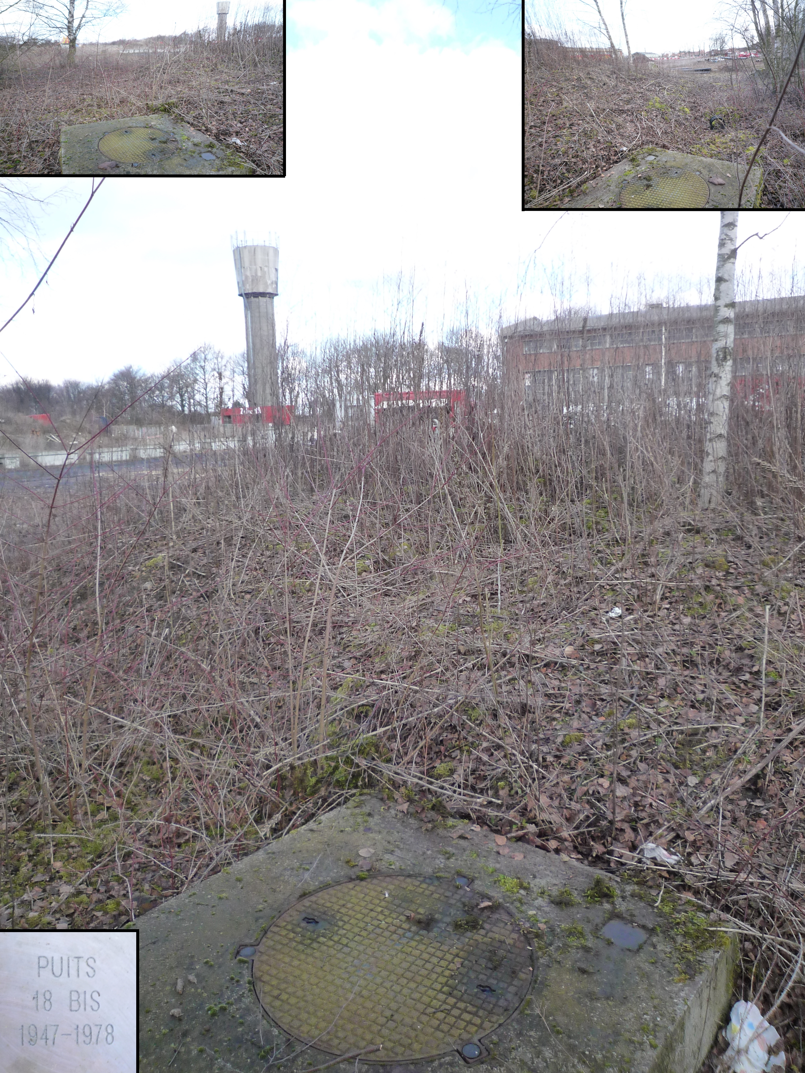 Pit n° 18 bis, Compagnie des mines de Lens, Hulluch, Pas-de-Calais, Nord-Pas-de-Calais, France.